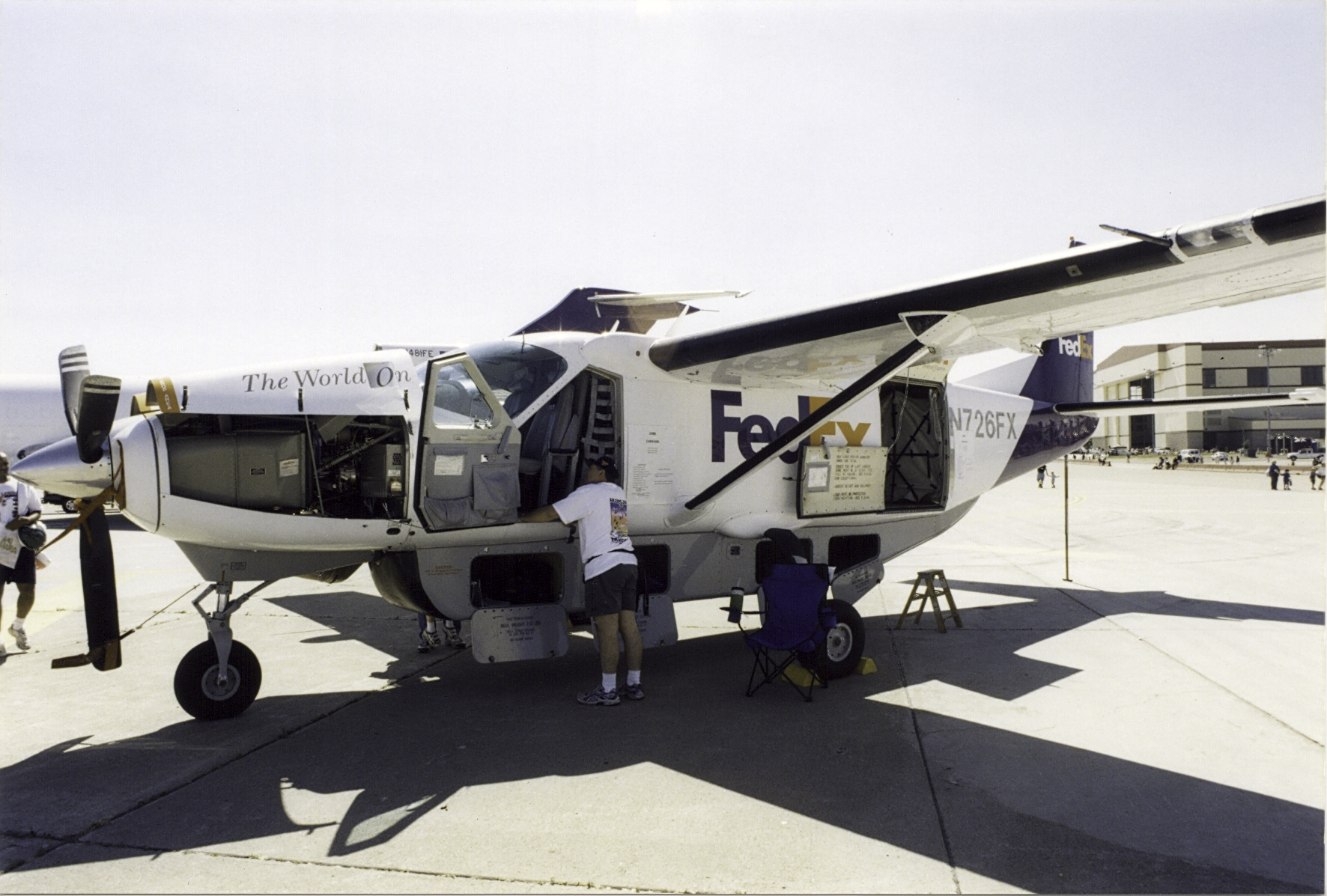 The back, white, blue and yellow here are trustworthy. But my scanner isn't trustworthy in the red range of colors, so this is a bit faded looking, compared to the actual print. For example, the "Ex" in "FedEx" should be a vibrant red, instead of this faded orange... 00_14_26A